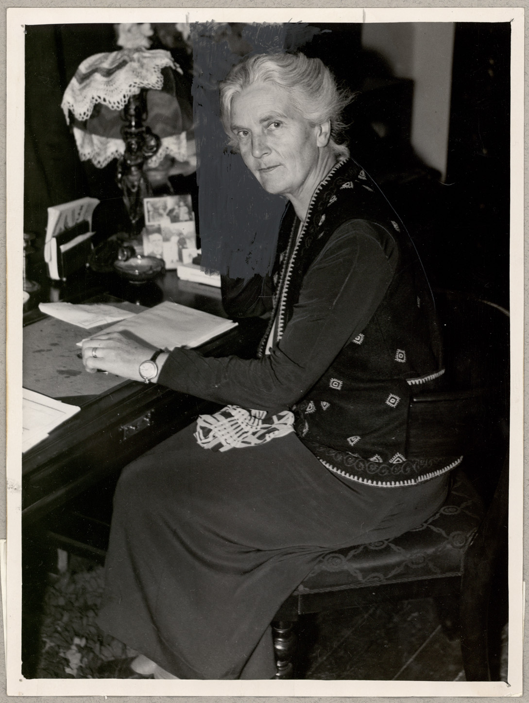 Inger Gautier Schmit (1877-1963). Landstinget 1918-29. Folketinget 1929-45 og 1947-1950